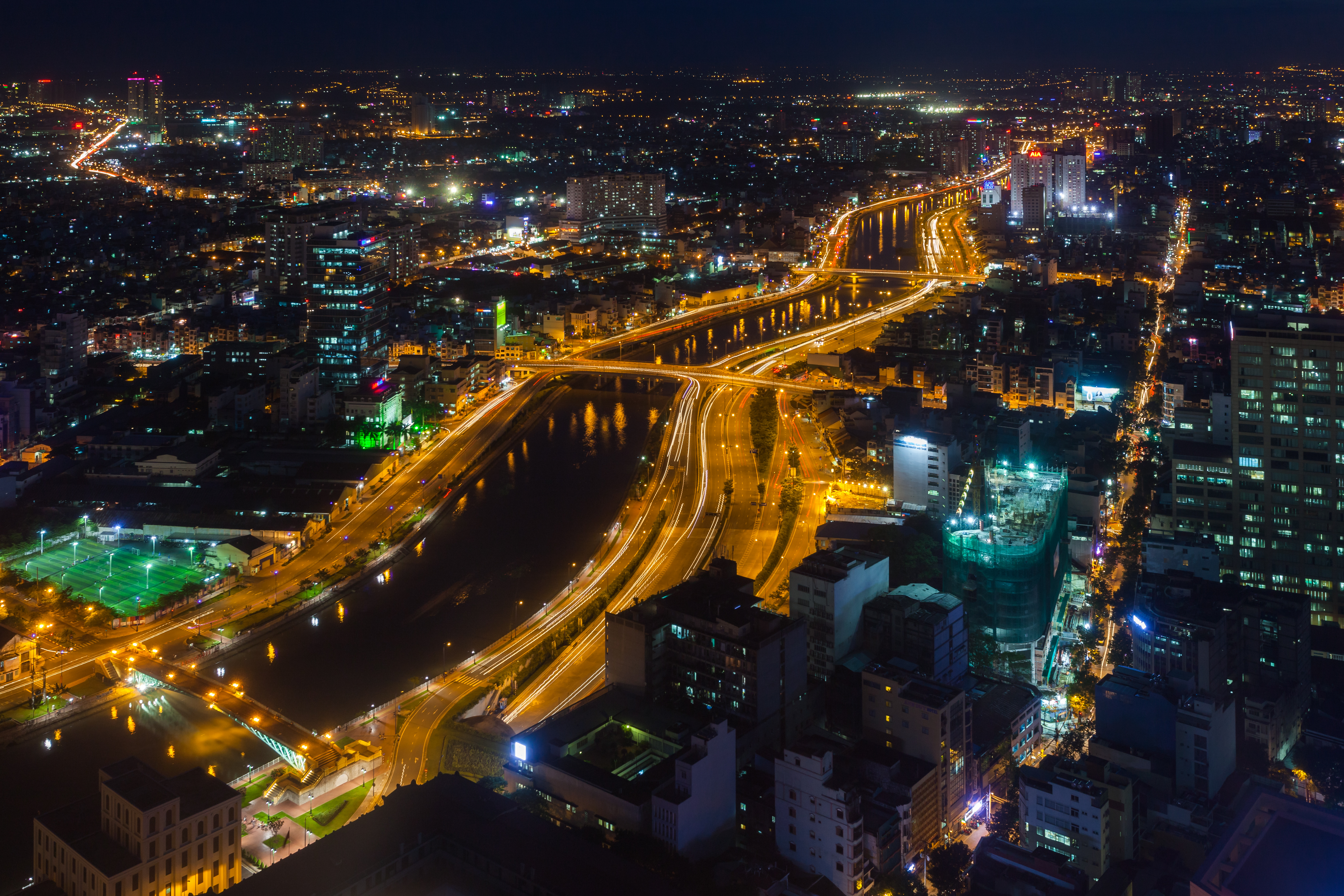 View of Ho Chi Minh City from Bitexco Financial Tower, VietnamTiếng Việt: Quang cảnh Thành phố Hồ Chí Minh nhìn từ tòa nhà Bitexco Financial.